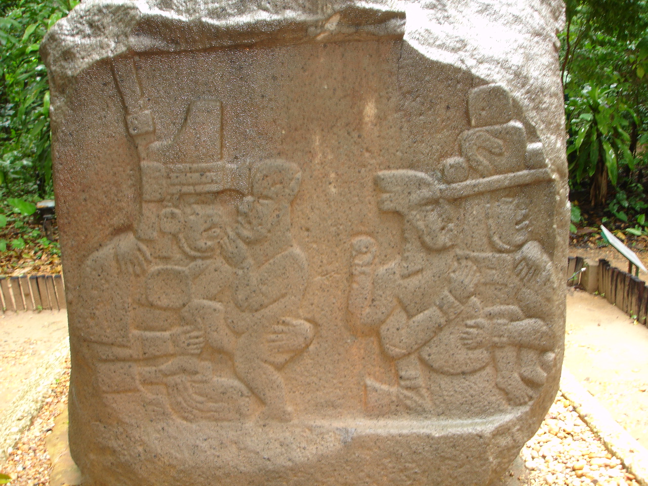 The bas-relief on the left side of Altar 5 from La Venta.